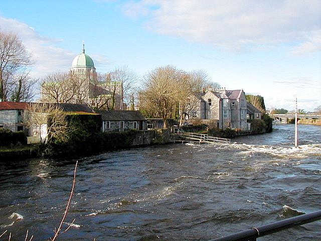 River Corrib (Galway River) at King's Gap Looking upstream towards Galway Cathedral (Cathedral of Our Lady Assumed into Heaven and St Nicholas). The landing stage at this location is mostly submerged by the very high river.